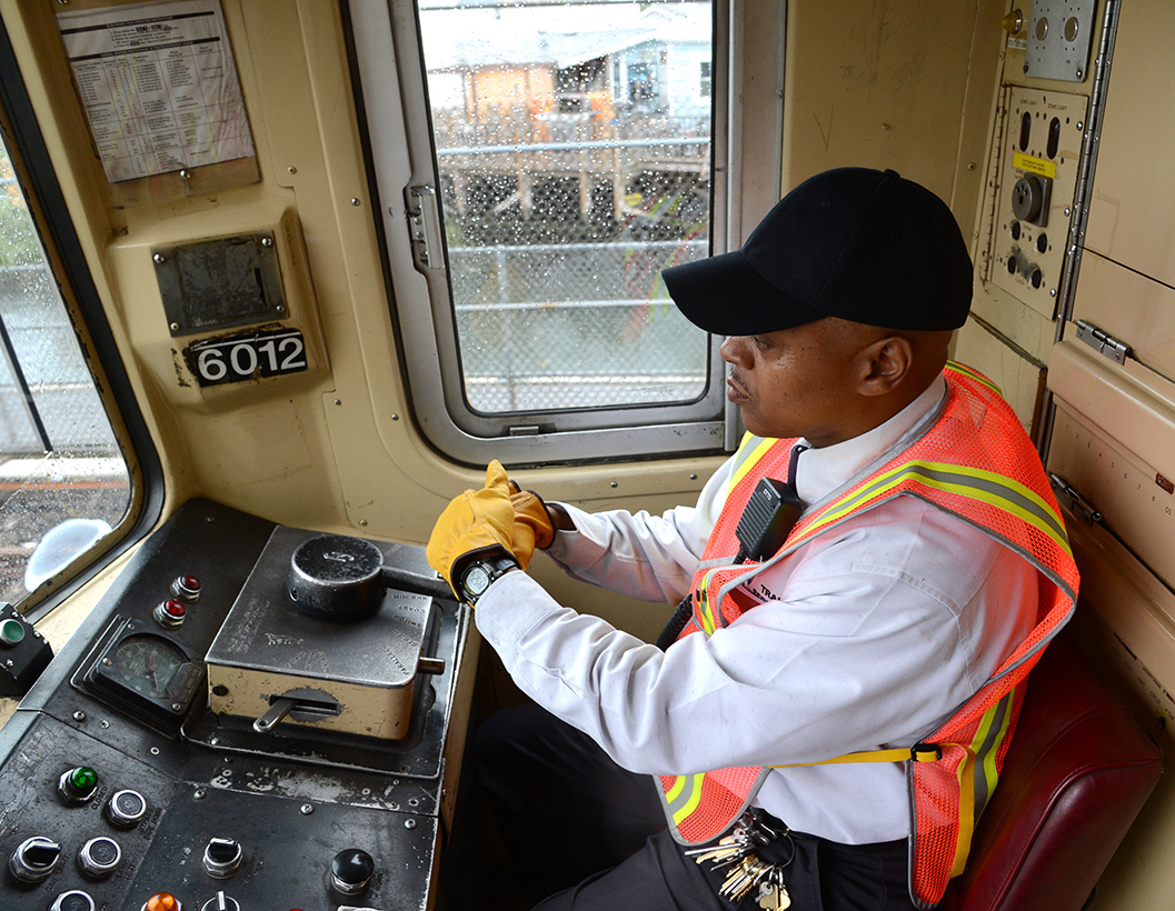 MTA New York City Transit officials rode a test train from Howard Beach to Rockaway Park-Beach 116 St. on Tue., May 28, 2013, in advance of restoration of A and Shuttle service to the Rockaways on Thursday. Train Operator at the controls. Photo: Marc A. Hermann / MTA New York City Transit